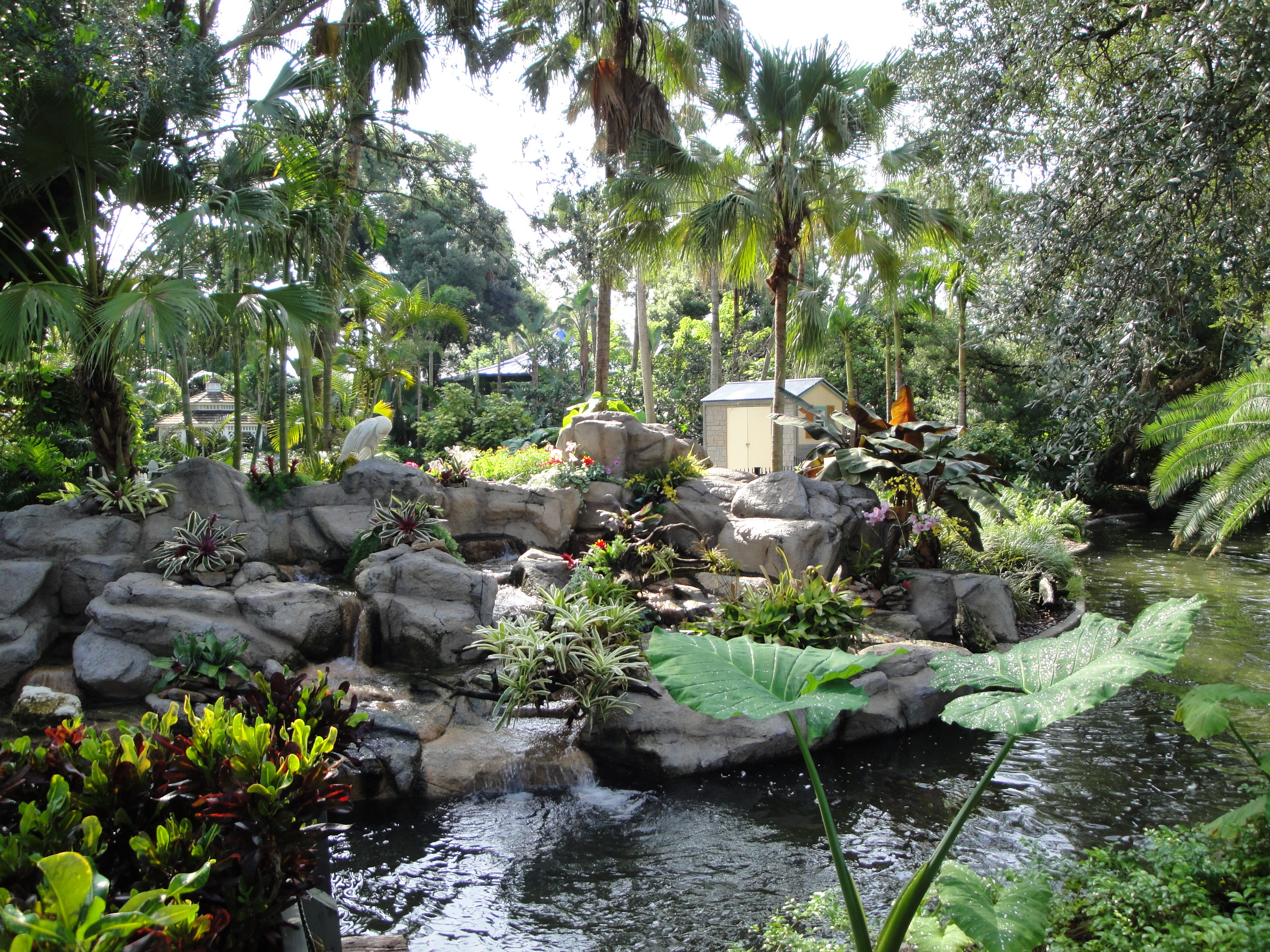 The Bird Gardens Area